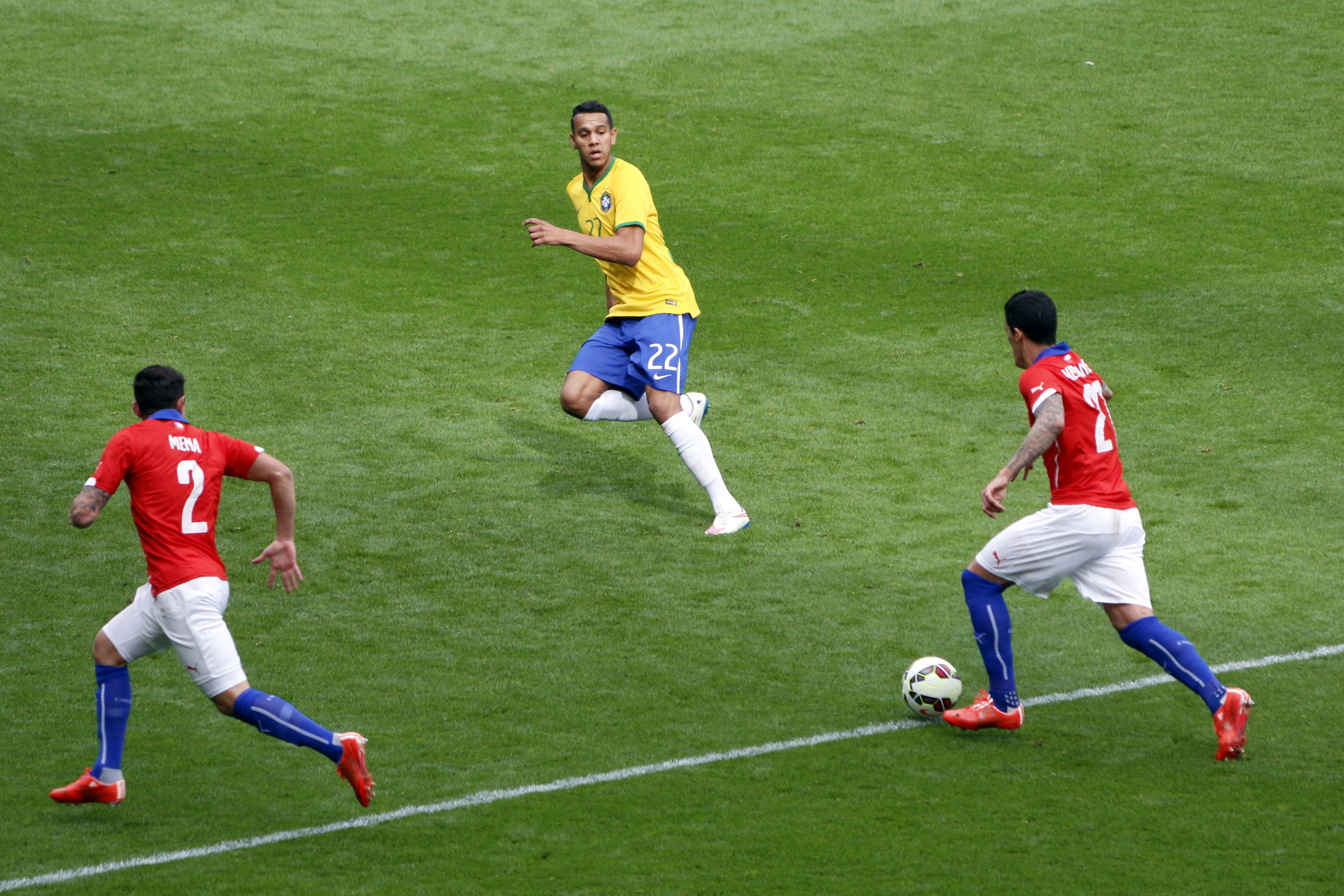 Souza Eugenio Mena Pedro Hernández Brazil vs Chile, International Friendly, 29th March, 2015, Emirates Stadium, London